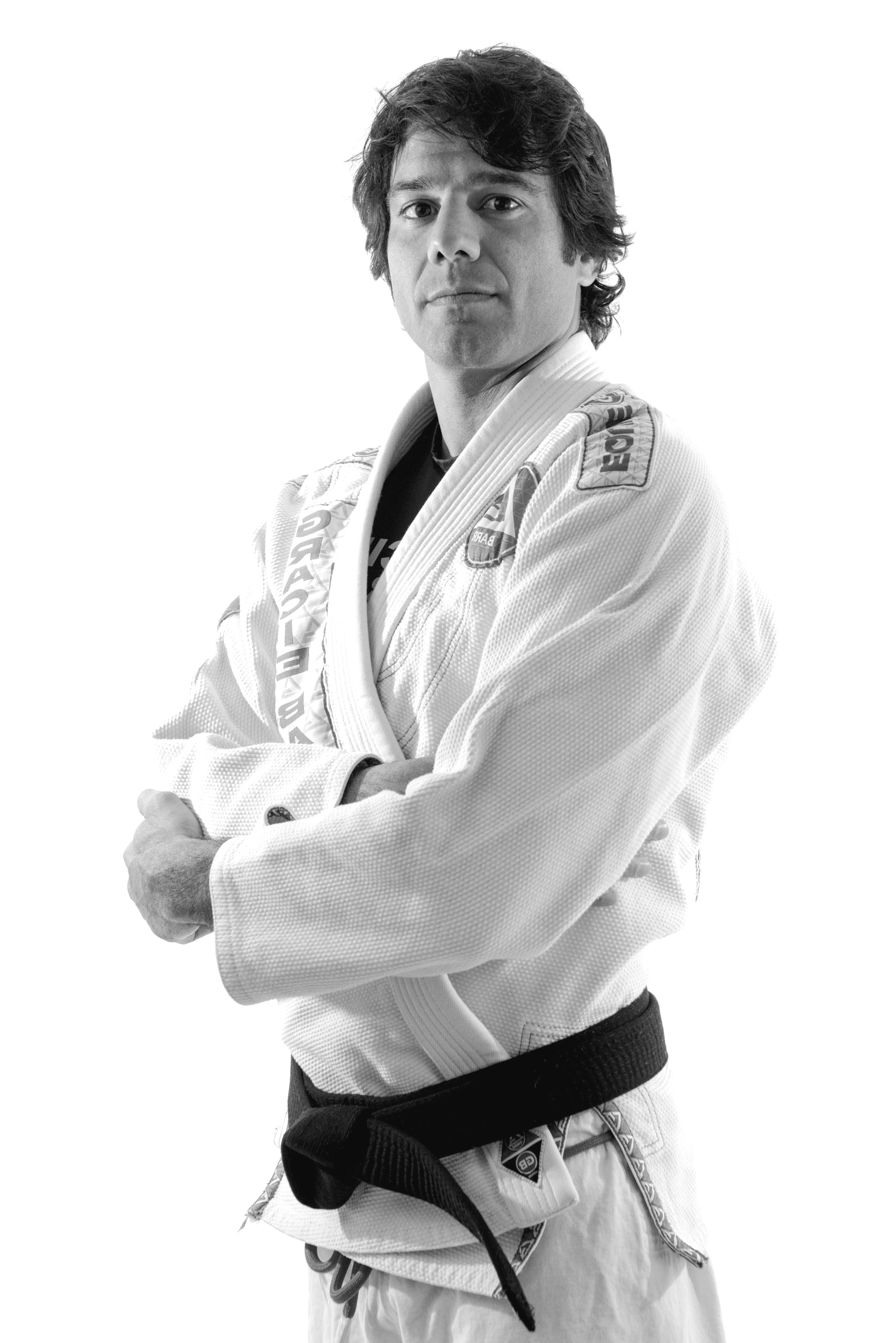 Portrait of Bruno F. Fernandes, a Brazilian Jiu-jitsu master.